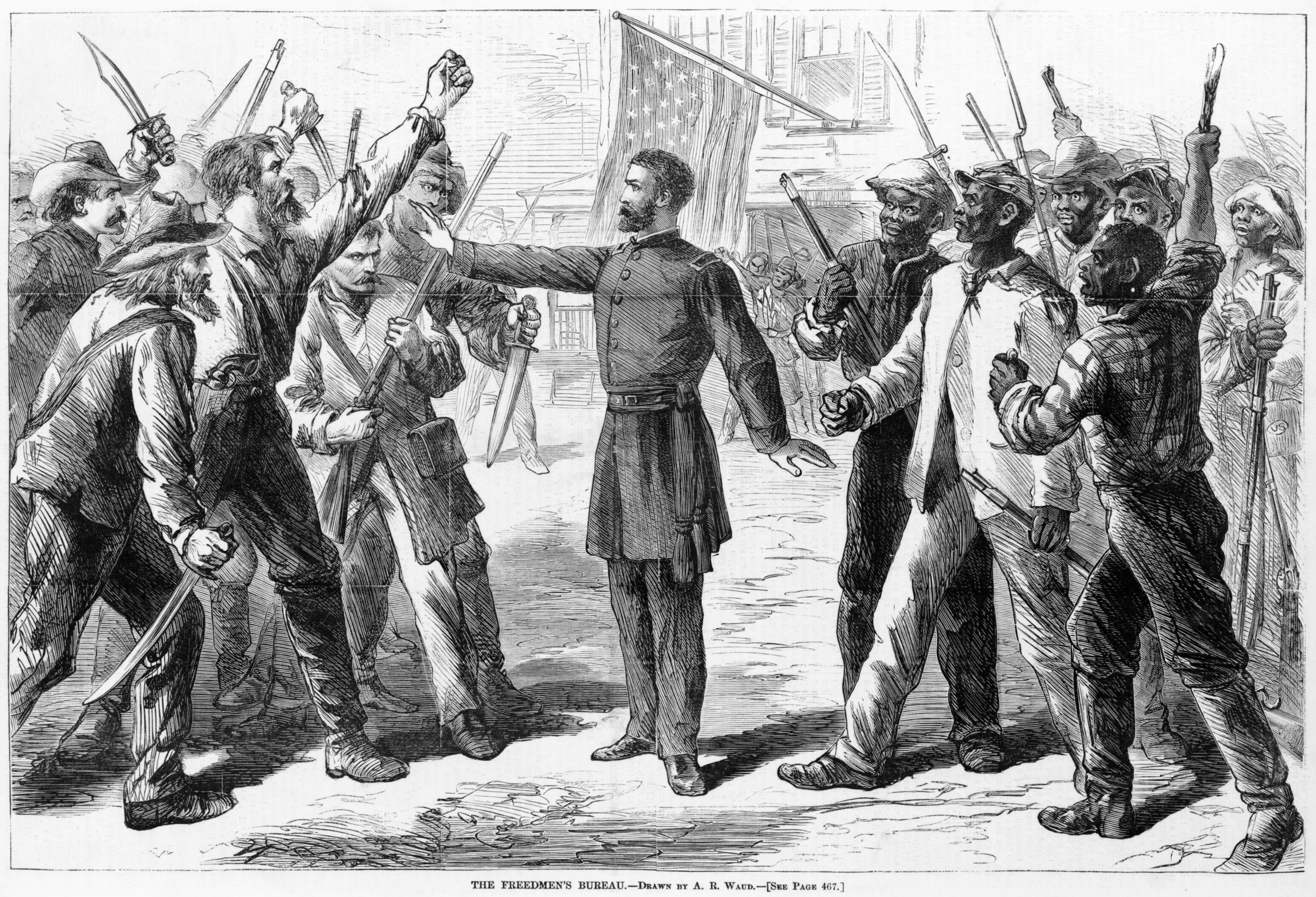 LOC info: TITLE: The Freedmen's Bureau / Drawn by A.R. Waud. CALL NUMBER: Illus. in AP2.H32 Case Y [P&P] REPRODUCTION NUMBER: LC-USZ62-105555 (b&w film copy neg.) No known restrictions on publication. SUMMARY: Man representing the Freedman's Bureau stands between armed groups of Euro-Americans and Afro-Americans. MEDIUM: 1 print : wood engraving. CREATED/PUBLISHED: 1868. CREATOR: Waud, Alfred R. (Alfred Rudolph), 1828-1891, artist. NOTES: Illus. in: Harper's weekly, 1868 July 25, p. 473. SUBJECTS: United States. Bureau of Refugees, Freedmen, and Abandoned Lands. African Americans--Civil rights--1860-1870. FORMAT: Periodical illustrations 1860-1870. Wood engravings 1860-1870. DIGITAL ID: (b&w film copy neg.) cph 3c05555 CARD #: 92514996